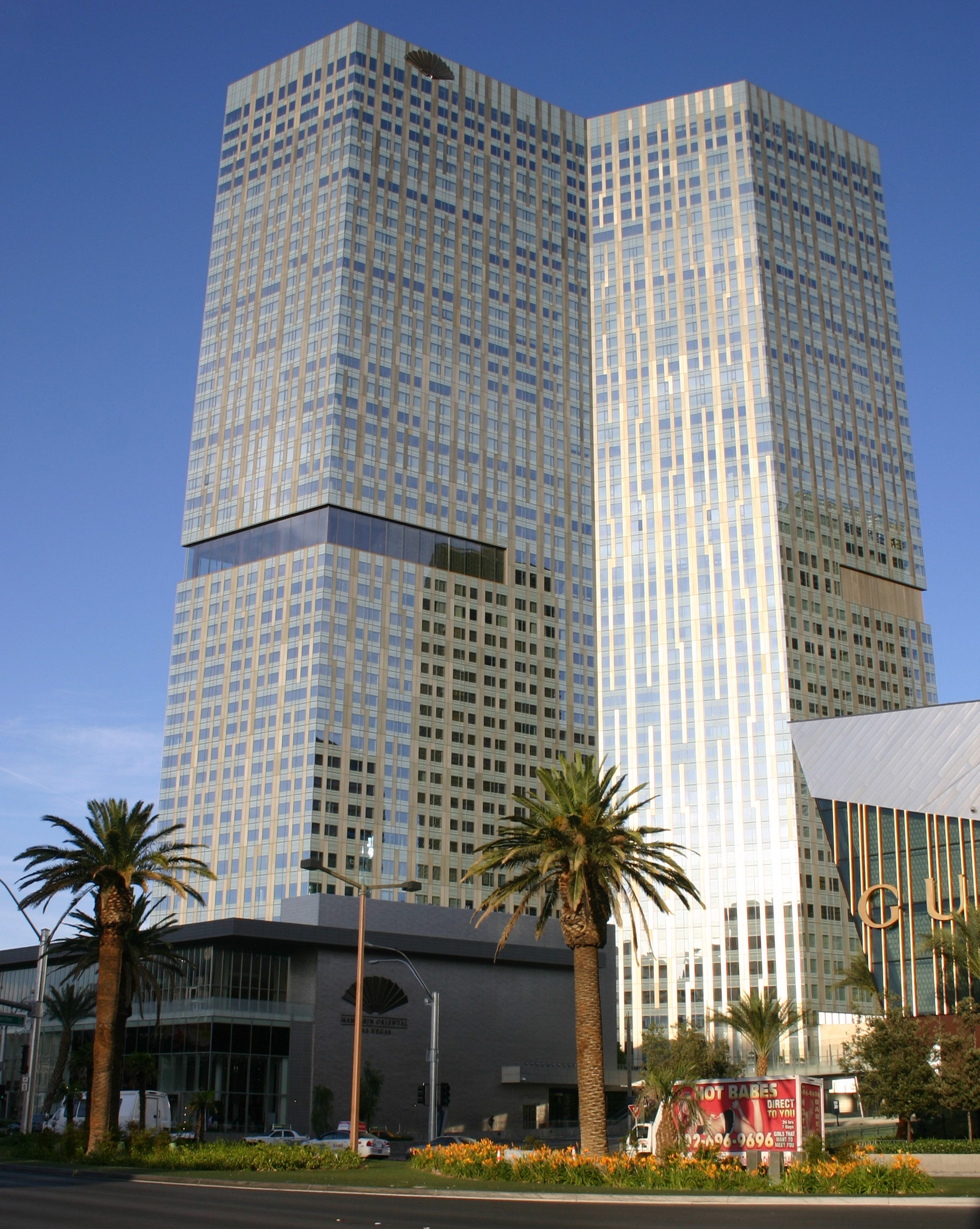 Photo of the Mandarin Oriental hotel along the Strip in Las Vegas, Nevada